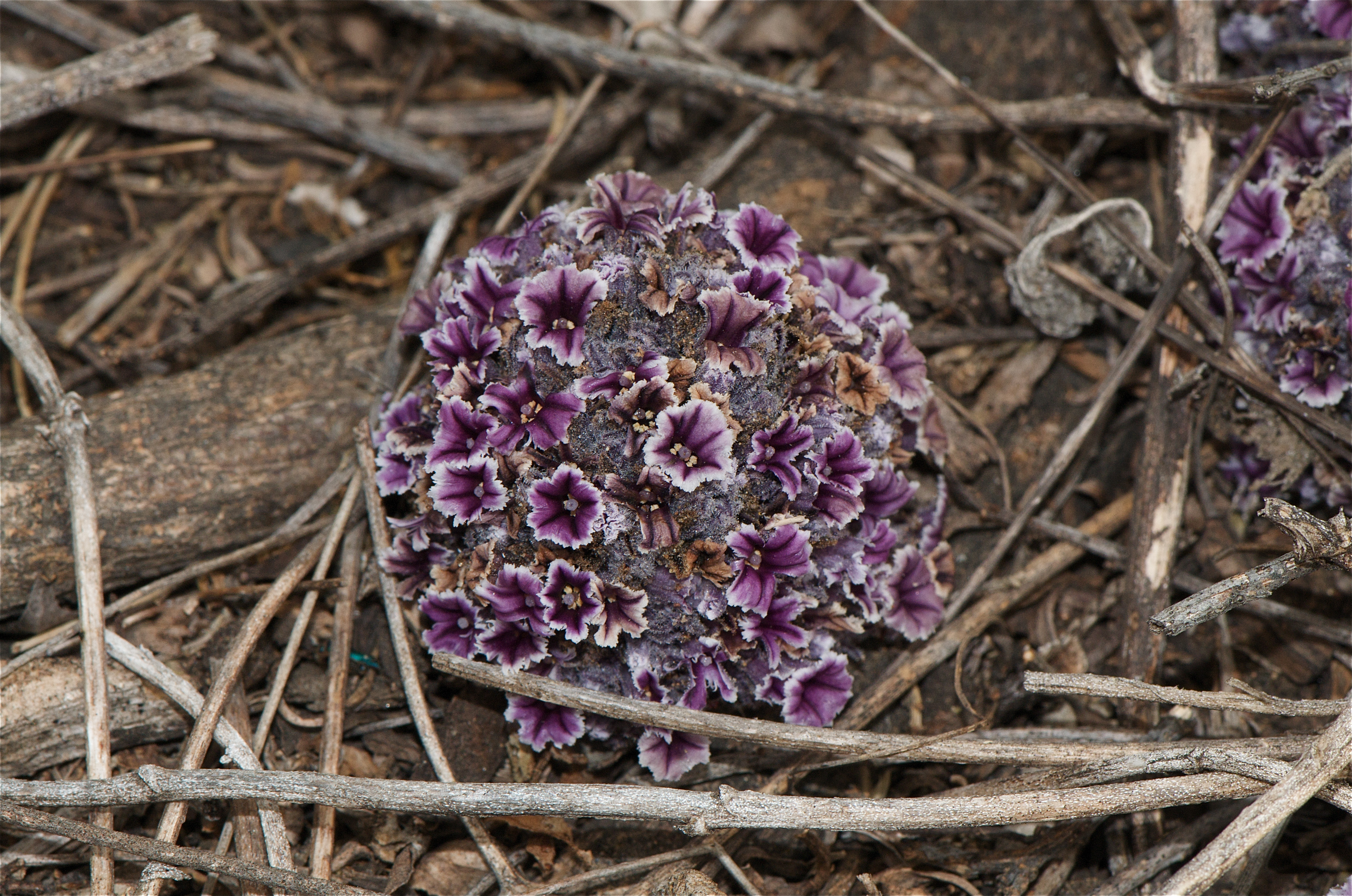 Pholisma arenarium. "It is almost the end of the season for this little beauty. It lacks chlorophyll and is often attached to the roots of mock heather. The leaves are brown and bract-like."